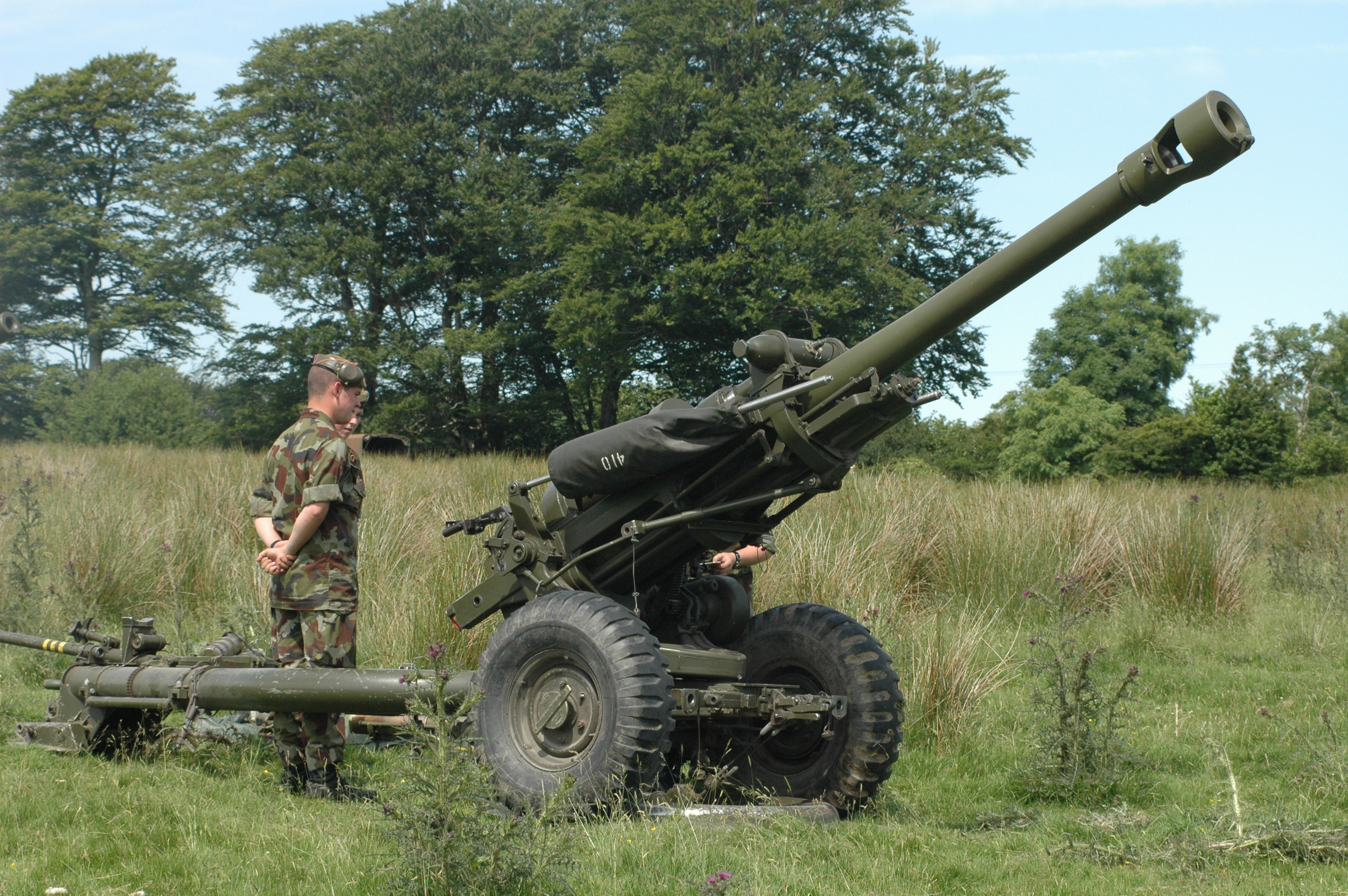 105 Shoot RDF (15)